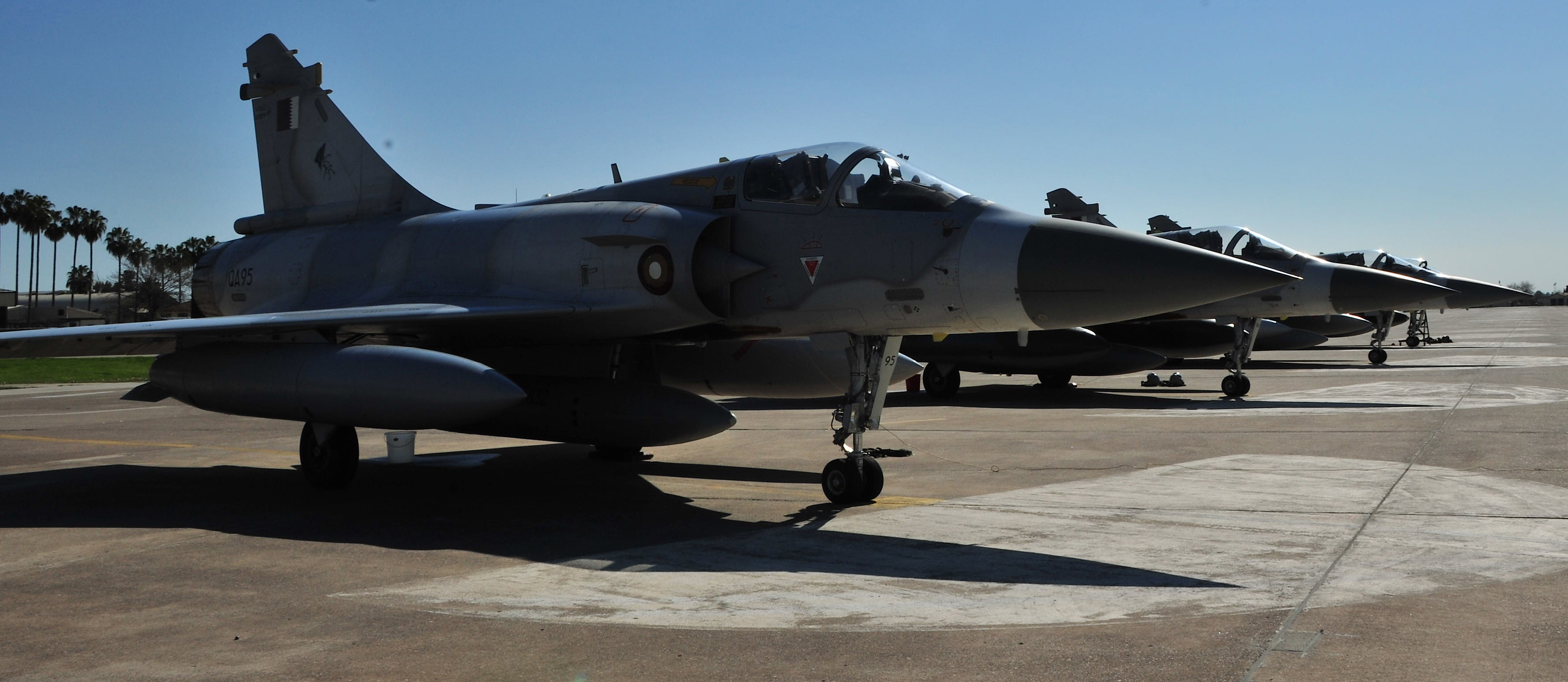 Qatari air force pilots complete post-flight checks during their stop at Incirlik Air Base, Turkey, to refuel in support of Operation Odyssey Dawn March 25, 2011.